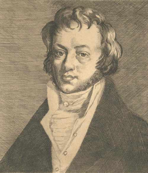 Etching by F Tonnelat of the French physicist and mathematician Andre-Marie Ampere (1775-1836). Hans Christian oersted's (1777-1851) discovery that an electric current generates a magnetic field stimulated Ampere to investigate electric current and electrodynamics. His most significant contribution was the mathematical formulation of magnetism, known as Ampere's law, which he provided in 1827. The SI (the international system of standard scientific units) unit of electric current was named in his honour in 1881, replacing the term 'weber'. He became Profesor of Physics and Chemistry at Bourg in 1801 and Profesor of Mathematics at the Ecole Polytechnique in Paris in 1809. Published by the International Telecommunication Union.